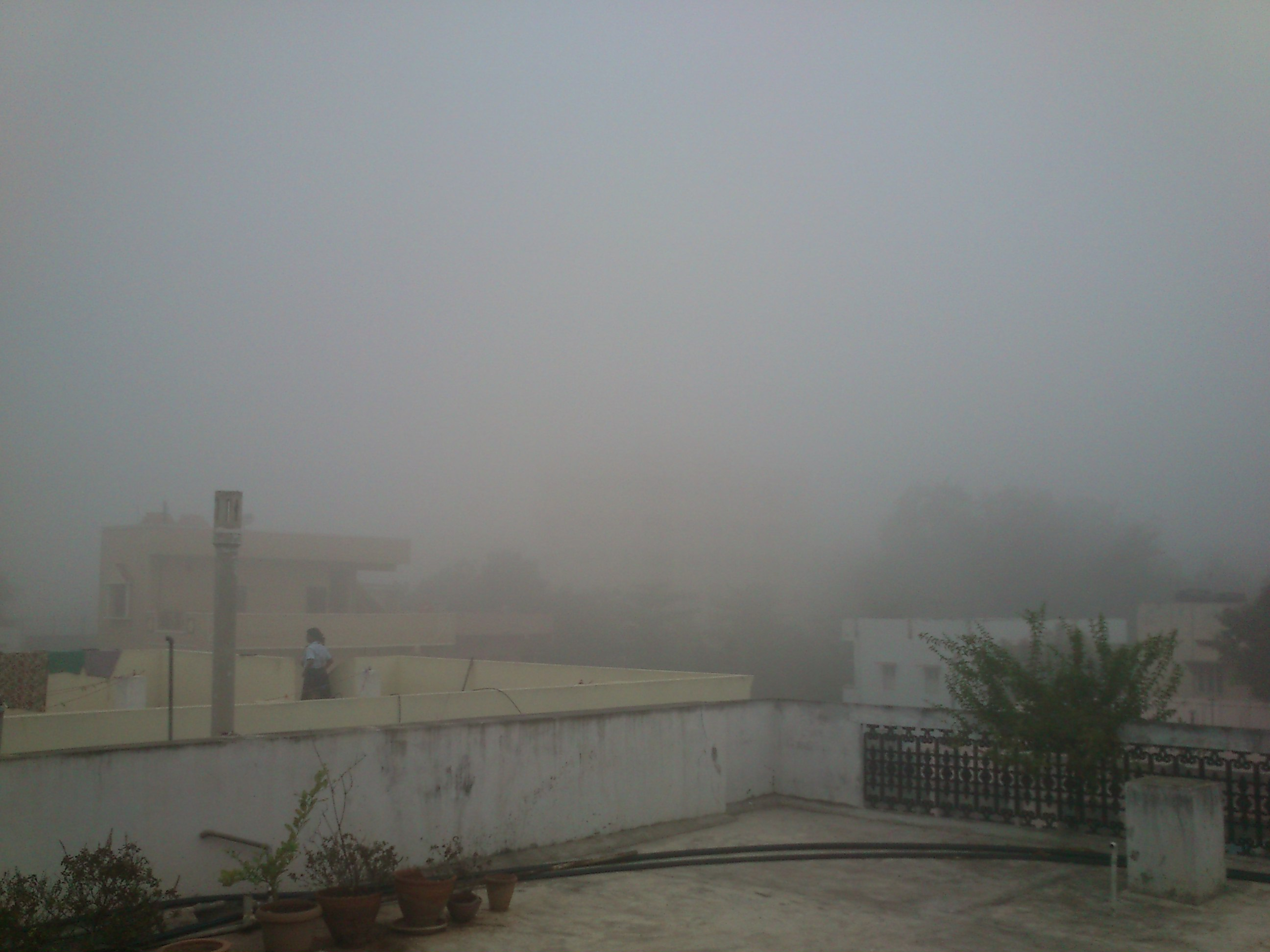 A foggy day in the Indian metropolis of Hyderabad.